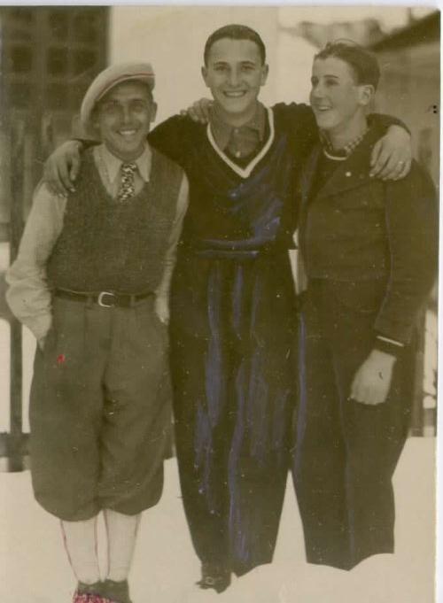 Albin Jakopič, Pribovšek and Karel Klančnik in 1935